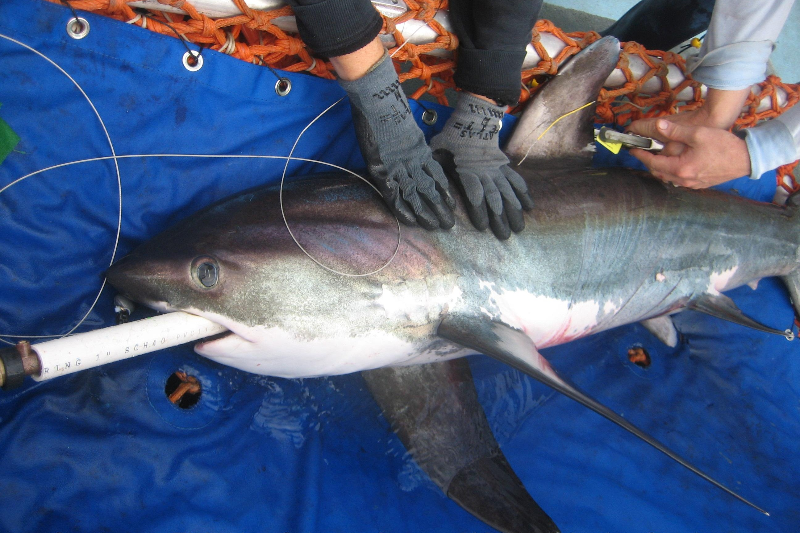 This adult common thresher shark was caught, tagged, and released alive during the 2009 Juvenile Shark Survey off of the Channel Islands. The hose in the sharks mouth pumps seawater across the gills so that the shark can breathe during the tagging operation.